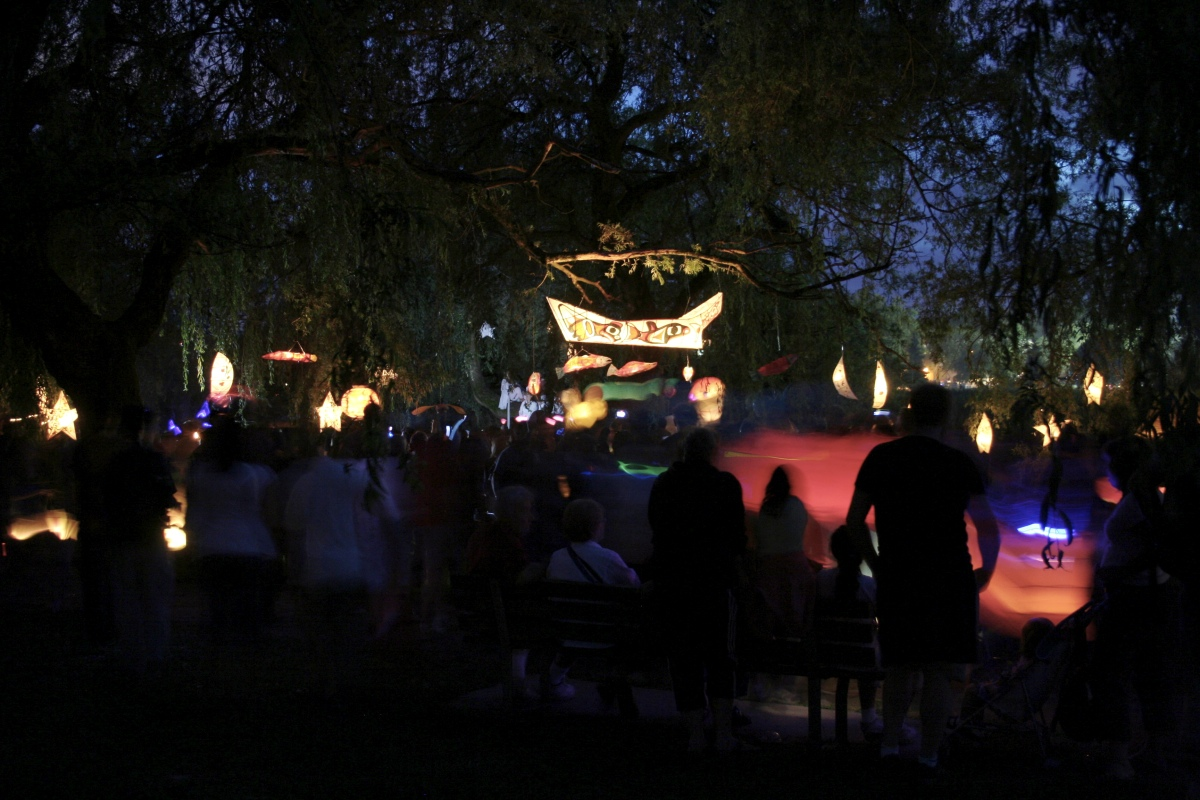 Taken at Illuminares, 2007.